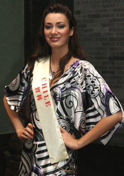 Miss Chile 2007 Bernardita Zuniga. Photo taken in Sanya, China 1/12/07